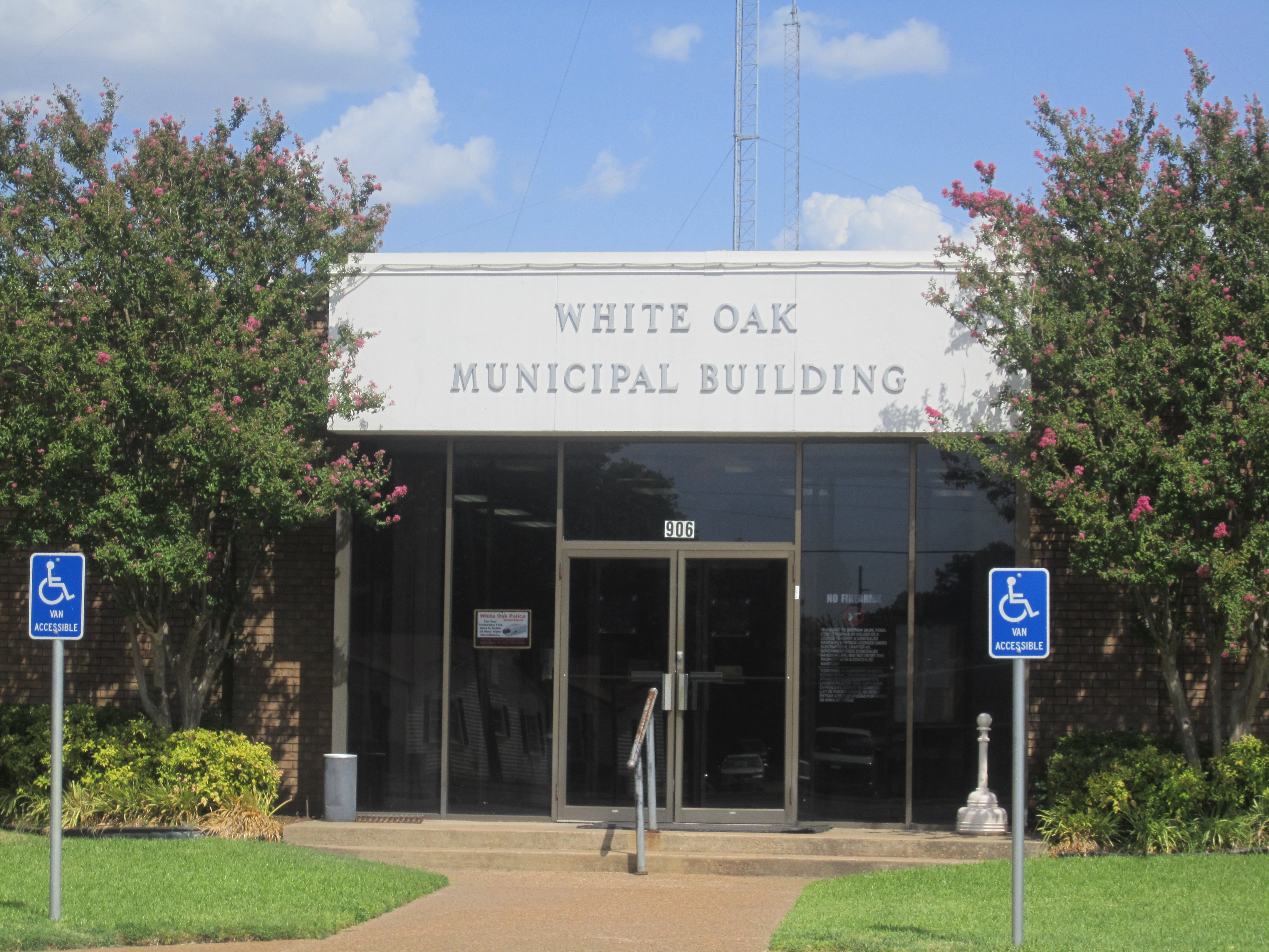 I took photo with Canon camera of municipal building in White Oak, TX.